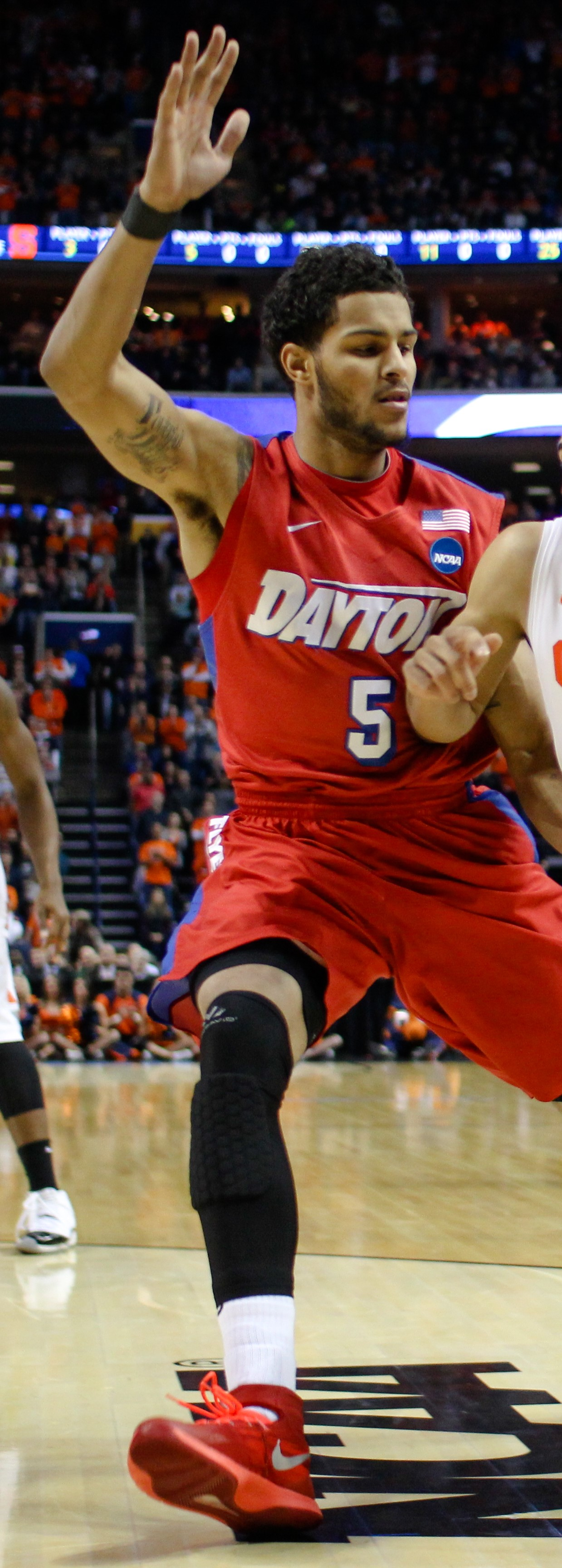 Devin Oliver playing against Syracuse